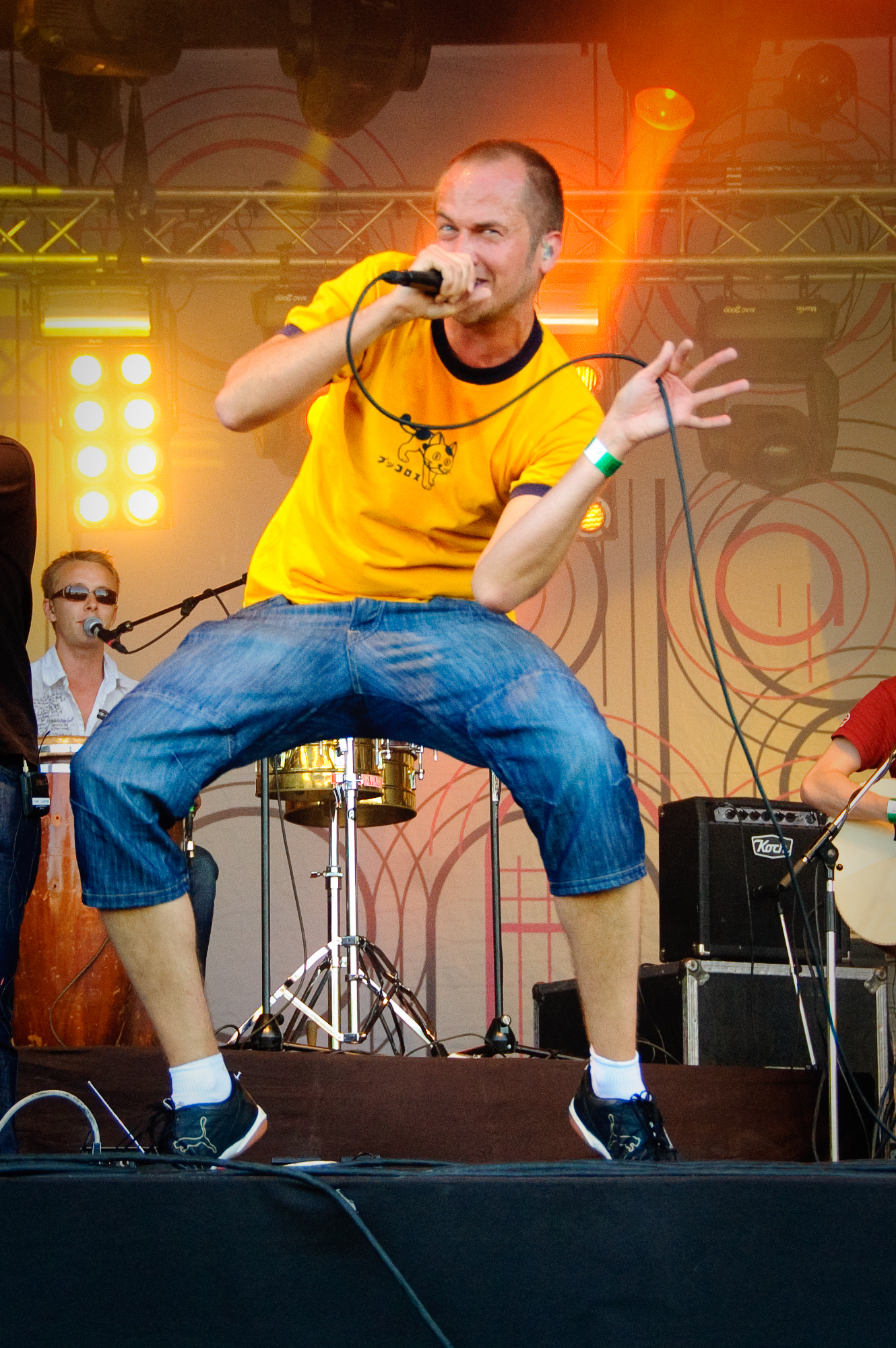 Vocalist Tommy Lindgren of Don Johnson Big Band performing at the 2009 Ilosaarirock festival in Joensuu, Finland.